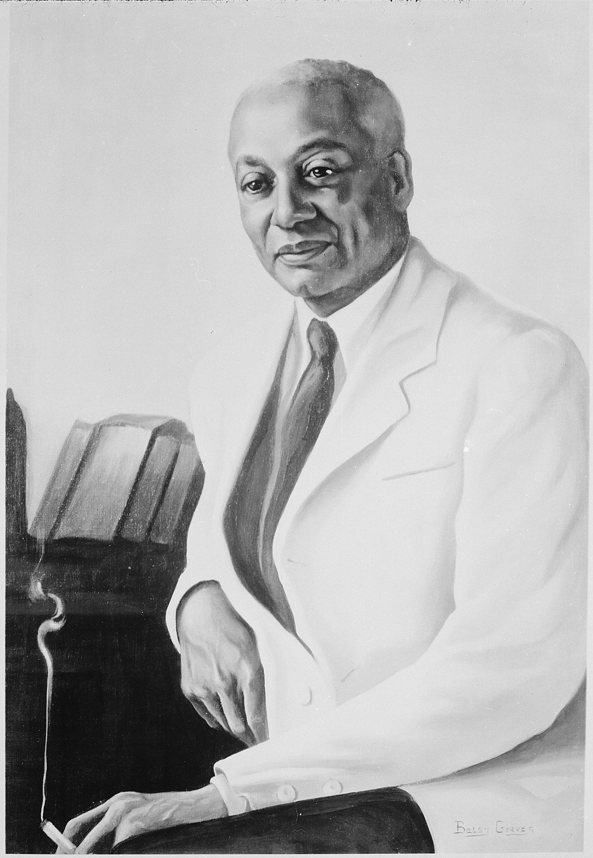 General notes: Painting